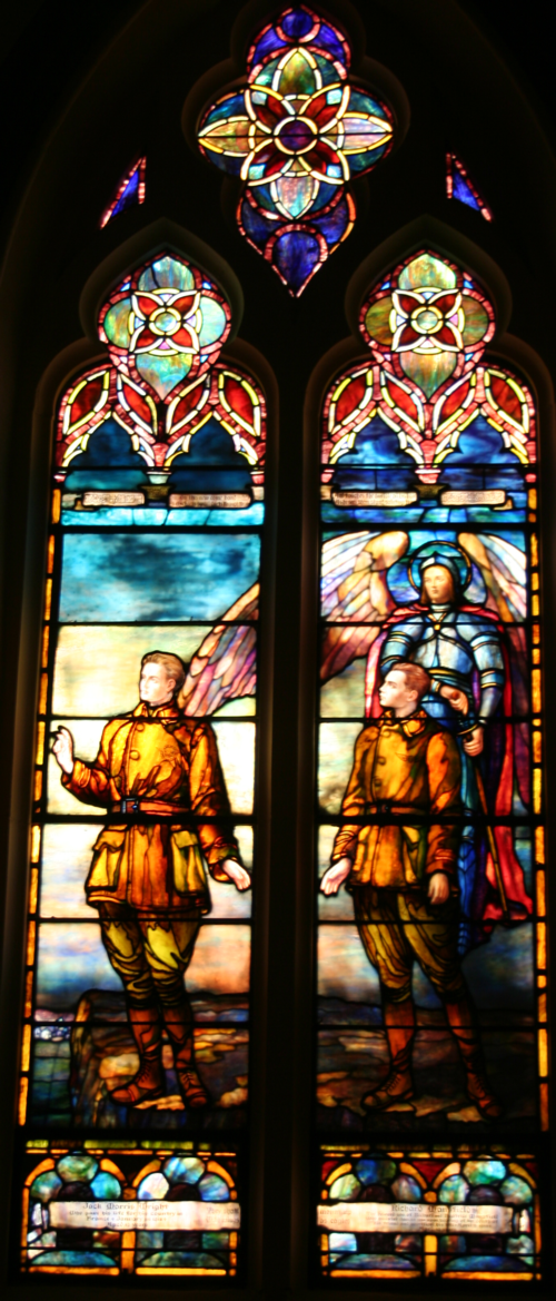 Airmen Window by J&R Lamb Studios in St. James Episcopal Church, New London, Connecticut, USA.